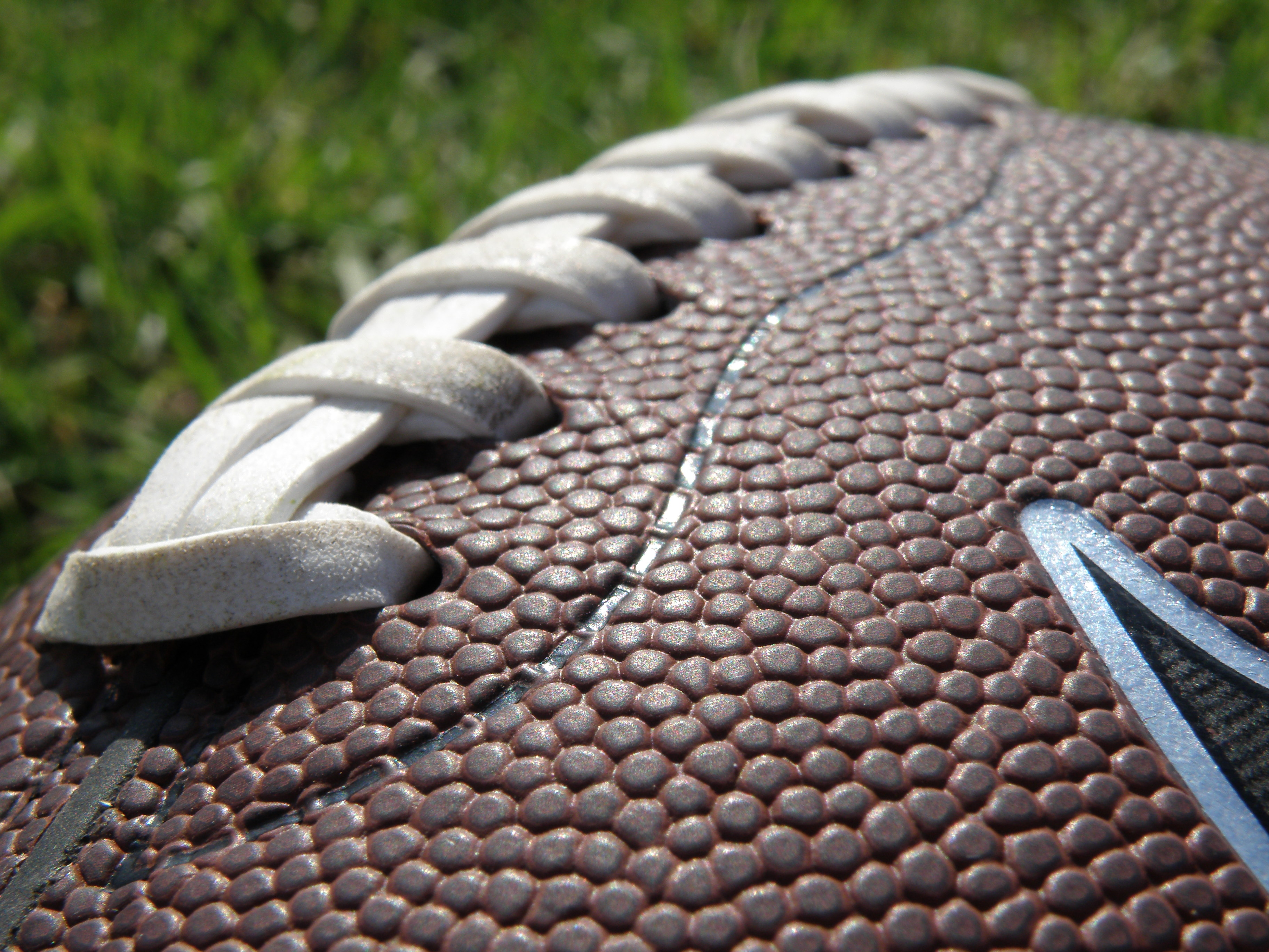 surface of an American football ball.